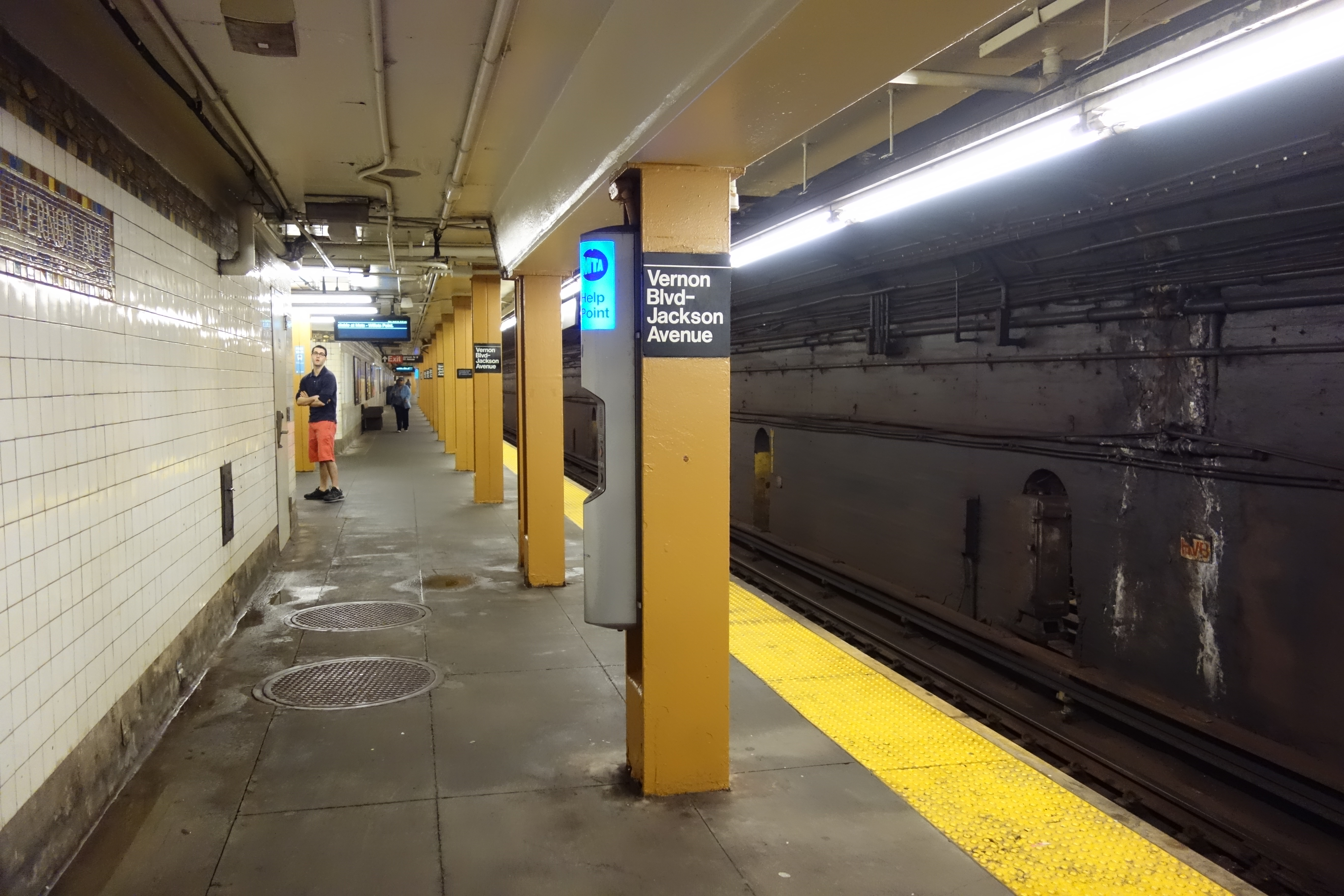 The Manhattan-bound platform of the Vernon Boulevard–Jackson Avenue IRT Station, under 50th Avenue and Vernon Boulevard west of Jackson Avenue in Hunters Point, Long Island City, Queens. The station features vibrant Dual Contracts mosaics, similar to those on the BMT Canarsie Line.